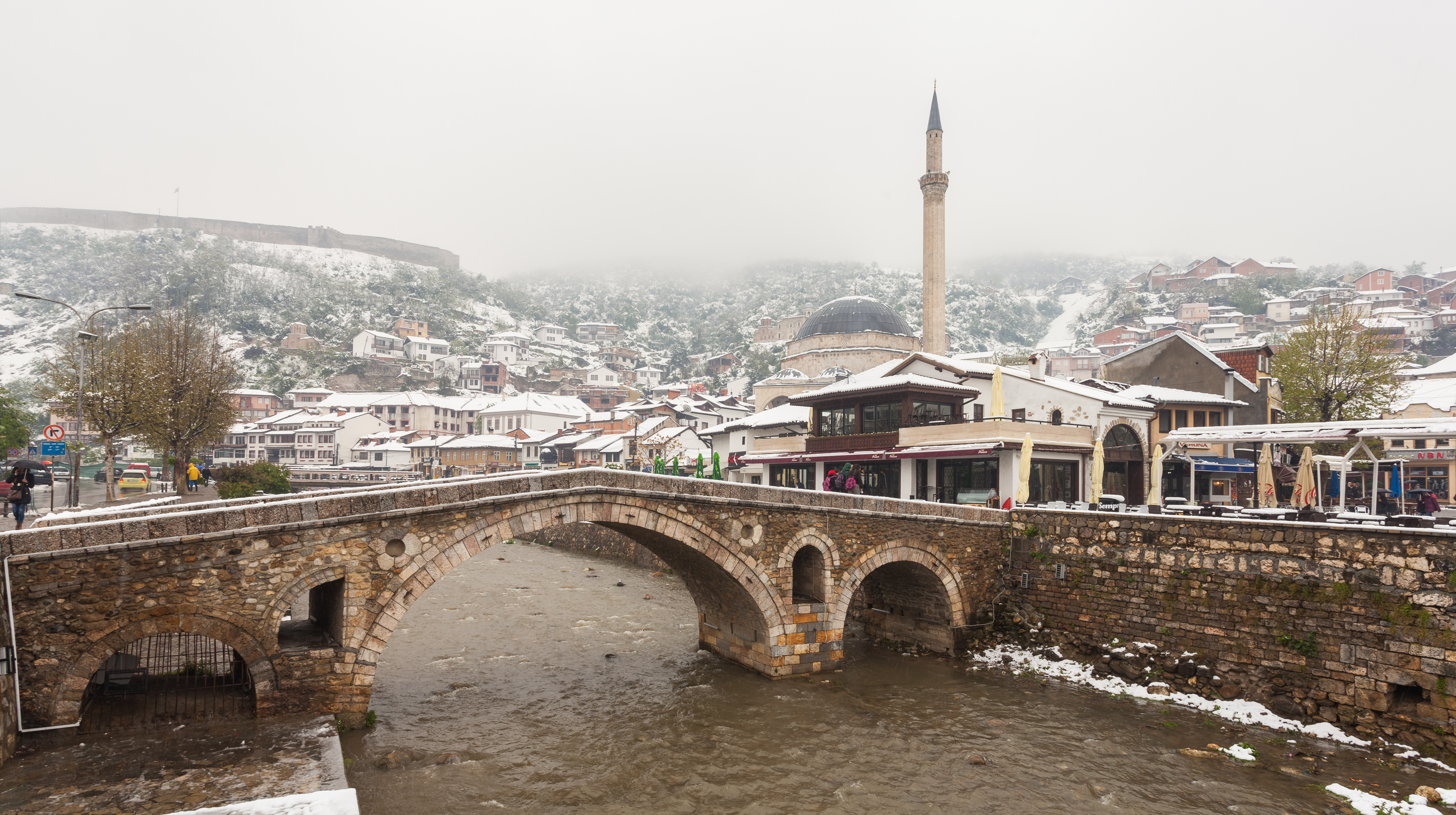 Stone Bridge, Prizren, Kosovo